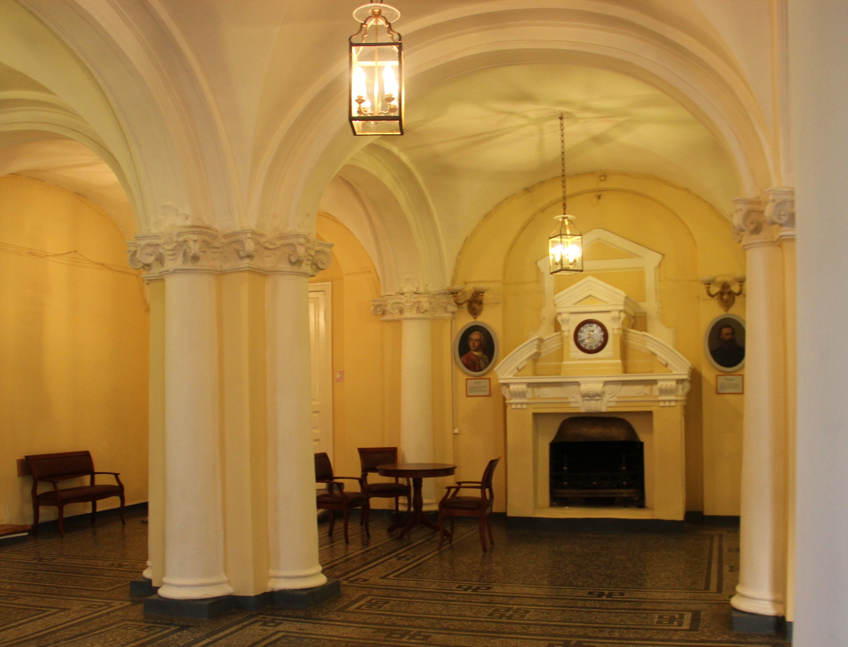 Vestebyul Shuvalov Palace, St. Petersburg